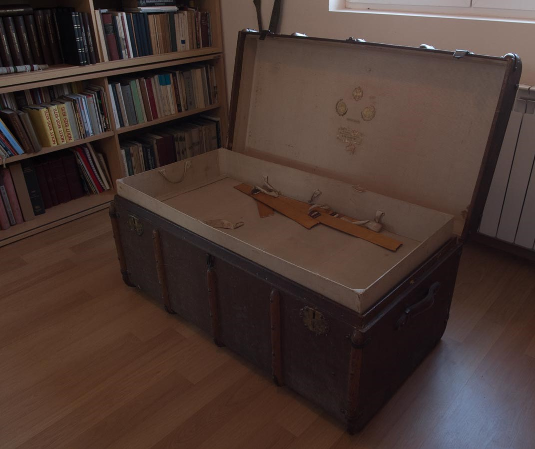 Sophie Alice Besevic's travel chest exhibited at the Grand Prix de Paris in 1900. It can be found in the Society for Culture, Art and International Cooperation Adligat in Belgrade, Serbia. Српски (ћирилица): Путни ковчег Алисе Бешевић, изложен на Светској изложби у Паризу 1900. године. Победнички предмет за своју категорију. Налази се у Удружењу за уметност, културу и међународну сарадњу „Адлигат” у Београду.